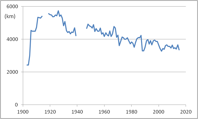 Tour de France - development of the tourlength over the years